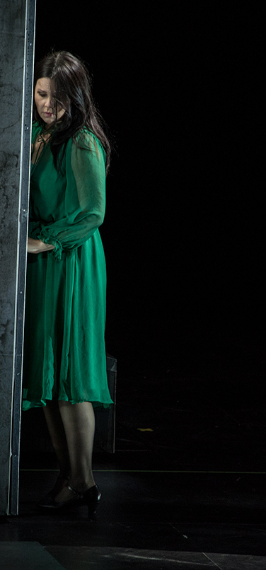 Opera "La Juive" by Eugène Scribe and Jacques Fromental Halévy, new production at Bayerische Staatsoper (Bavarian State Opera) in Munich, June 2016, directed by Calixto Bieito, sets by Rebecca Ringst, costumes by Ingo Krügler, video design by Sarah Derendinger, light design by Michael Bauer, conducted by Bertrand de Billy - this scene with Vera-Lotte Böcker (Princesse Eudoxie) and Aleksandra Kurzak (Rachel)